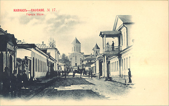 Temir Khan Shura (now Buynaksk, Dagestan). Russian postcard